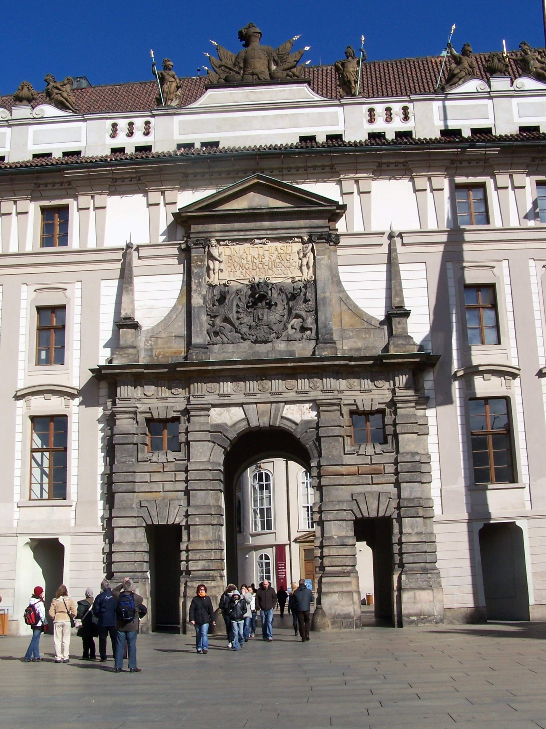 Main gate of Prague Castle.